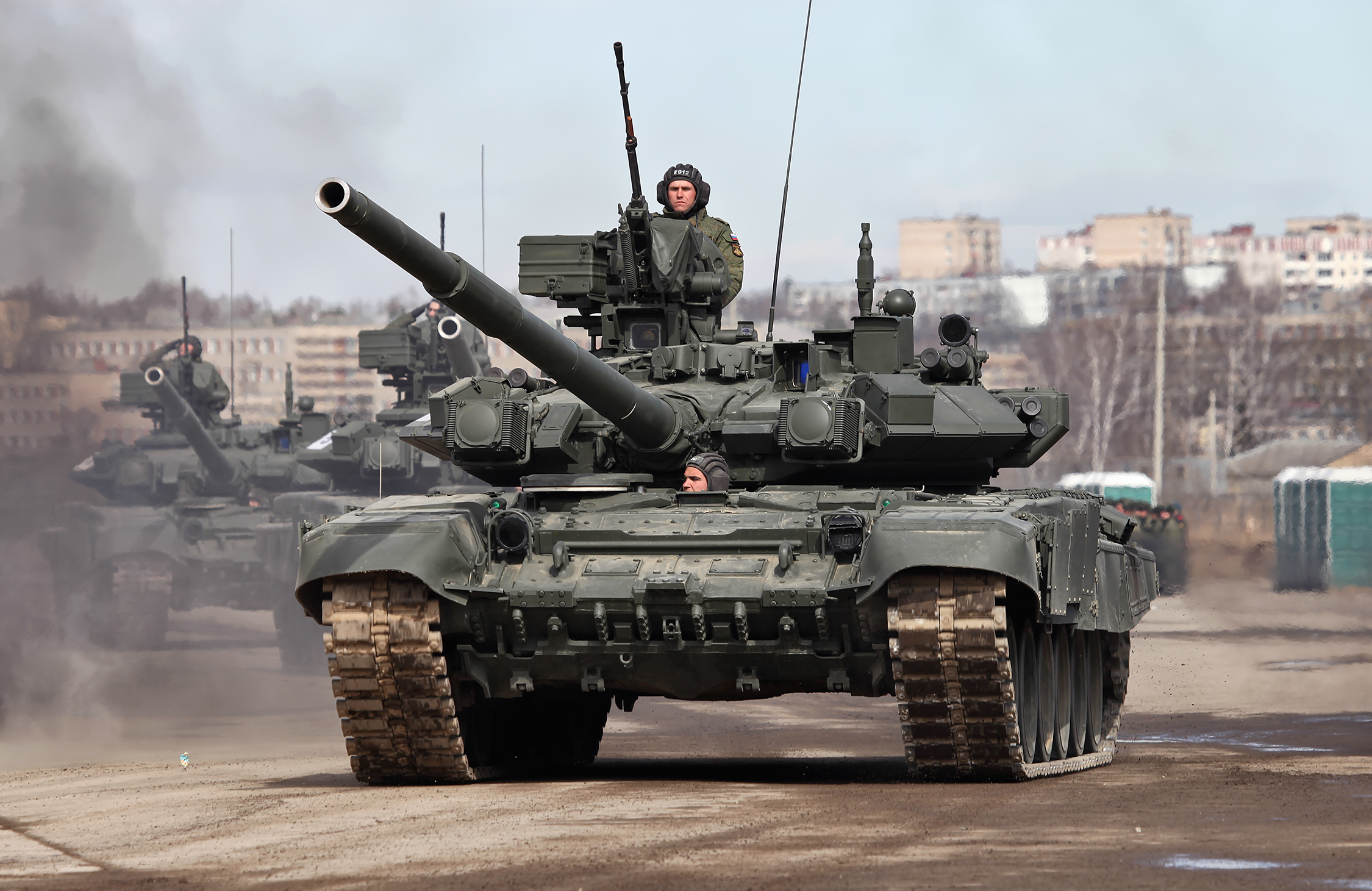 T-90A main battle tank